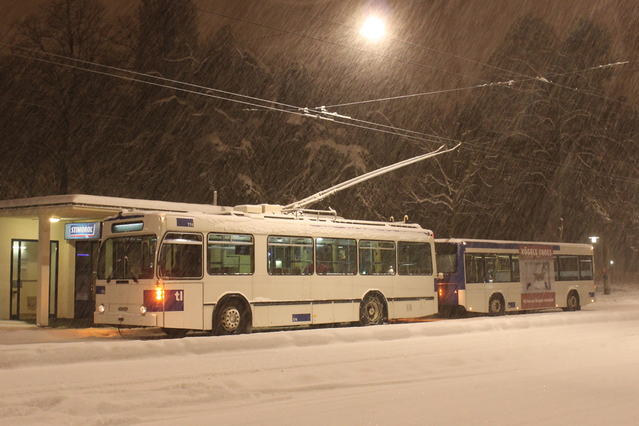 TL 774 at Montétan.